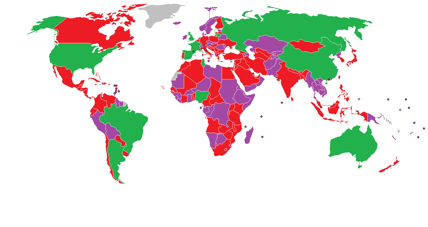 Status of national teams' qualification for the 2012 Olympic men's basketball tournament.